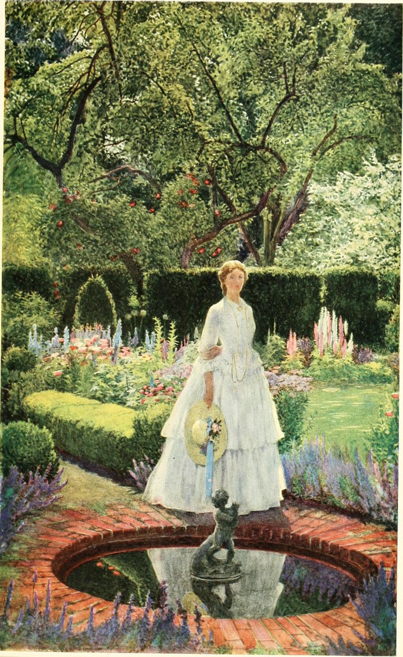 Title: Eleanor Fortesque Brickdale's Golden book of famous women Year: 1919 (1910s) Authors: Fortescue-Brickdale, Eleanor Subjects: Women in literature Publisher: London New York : Hodder and Stoughton Text Appearing Before Image: ' Text Appearing After Image: BECKY SHARP 145 was consumed with grief for her father. She had a little room in the garret, where the maids heard her walking and sobbing at night; but it was with rage, and not with grief. She had not been much of a dissembler, until now her loneliness taught her to feign. She had never mingled in the society of women: her father, reprobate as he was, was a man of talent; his conversation was a thousand times more agreeable to her than the talk of such of her own sex as she now encountered. The pompous vanity of the old schoolmistress, the foolish good-humour of her sister, the silly chat and scandal of the elder girls, and the frigid correctness of the governesses equally annoyed her; and she had no soft maternal heart, this unlucky girl, otherwise the prattle and talk of the younger children, with whose care she was chiefly entrusted, might have soothed and interested her; but she lived among them two years, and not one was sorry that she went away. The gentle tender-hearted Amelia Sedley was the onl